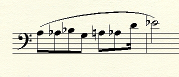 "theme de l'etoile et de la croix" from Olivier Messiaen's "Vingt regards..."